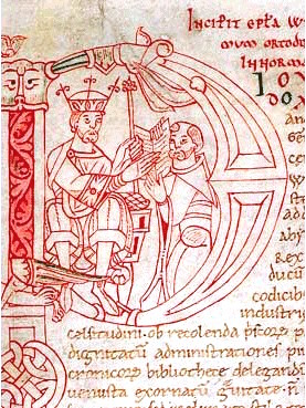 Gesta Normannorum ducum - Guillaume de Jumieges